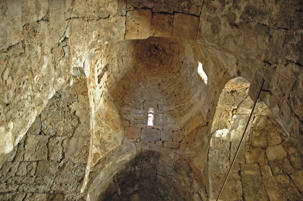 Haghartsin monastery. Armenia